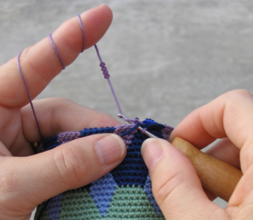 Since the bead falls to the back of the stitch, a fabric develops with beads on one side and colorful motifs on the other. Hooks with handles make it easier to crochet tight stitches.